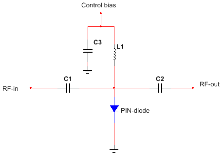 Shunt single pole single throw switch with pin-diode